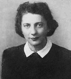 Betty Dubiner, 1940 passport file